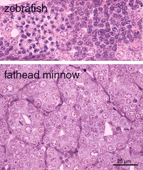 Development of testis in Fathead minnow differs from Zebrafish